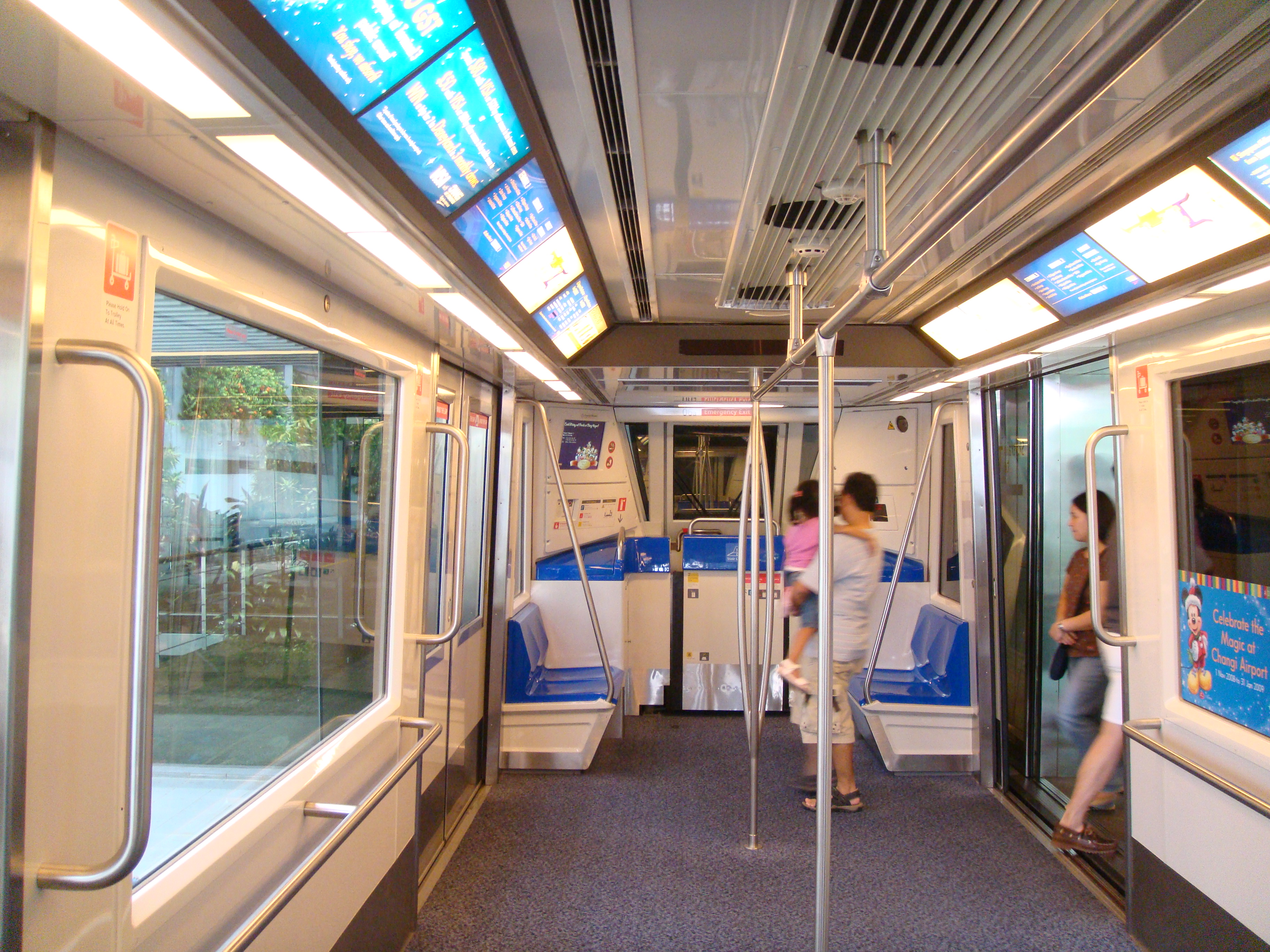 Interior of CrystalMover Skytrain, Changi Airport, Singapore.